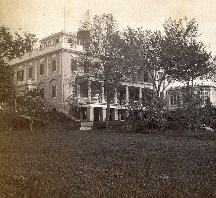 Grasse Mount (view from the northwest) during the Lawrence Barnes family ownership, some time between 1866-1892. Photo titled "89 - Hon. Lawrence Barnes' Residence" from the "New Series Burlington Views."